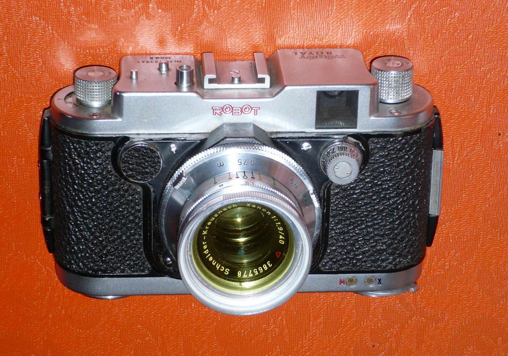 Robot Royal model II